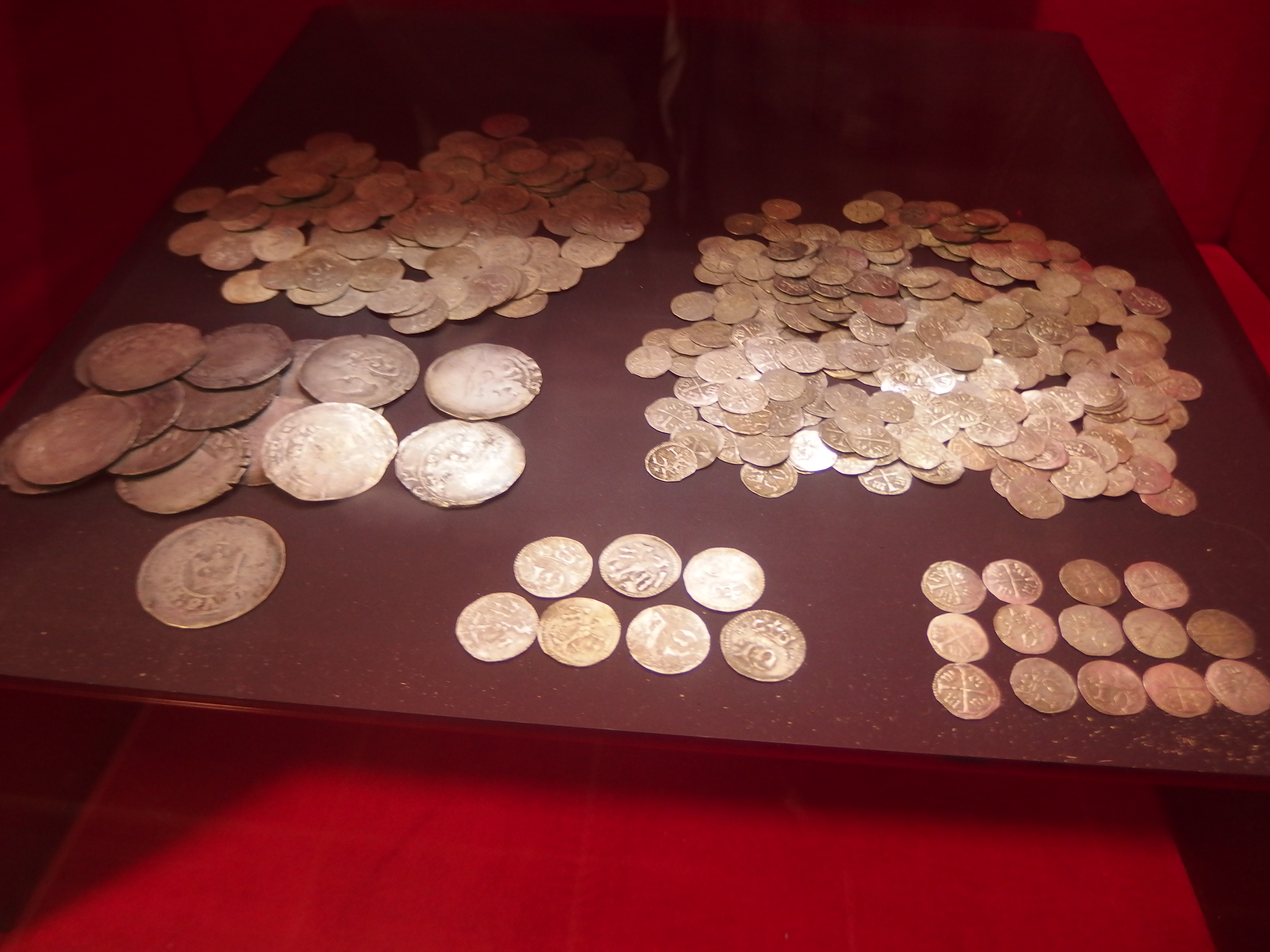 Brno, Czech Republic. Mintmaster's cellar.